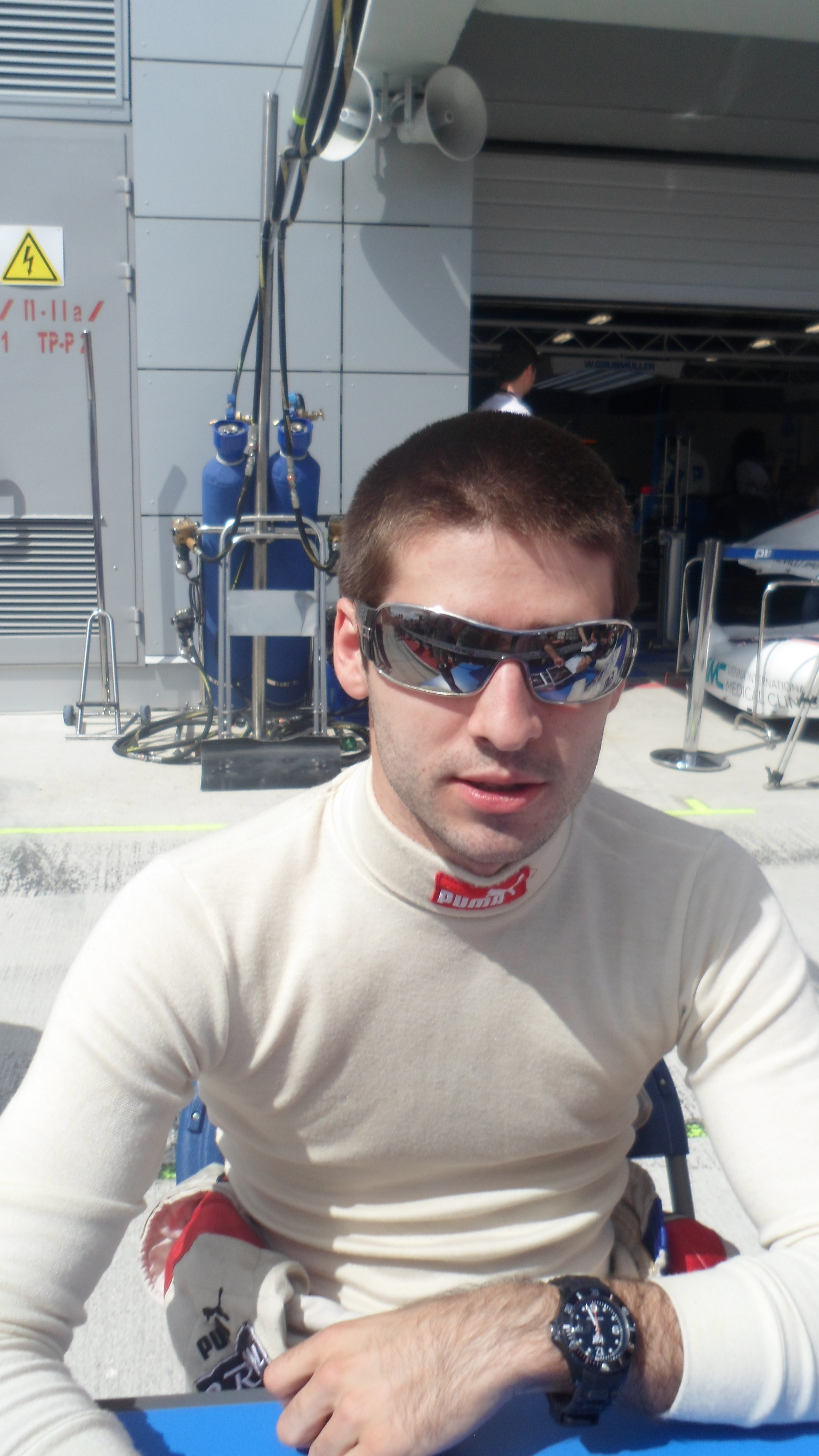 Walter Grubmüller on autograph session at Moscow Raceway, 14 July 2012